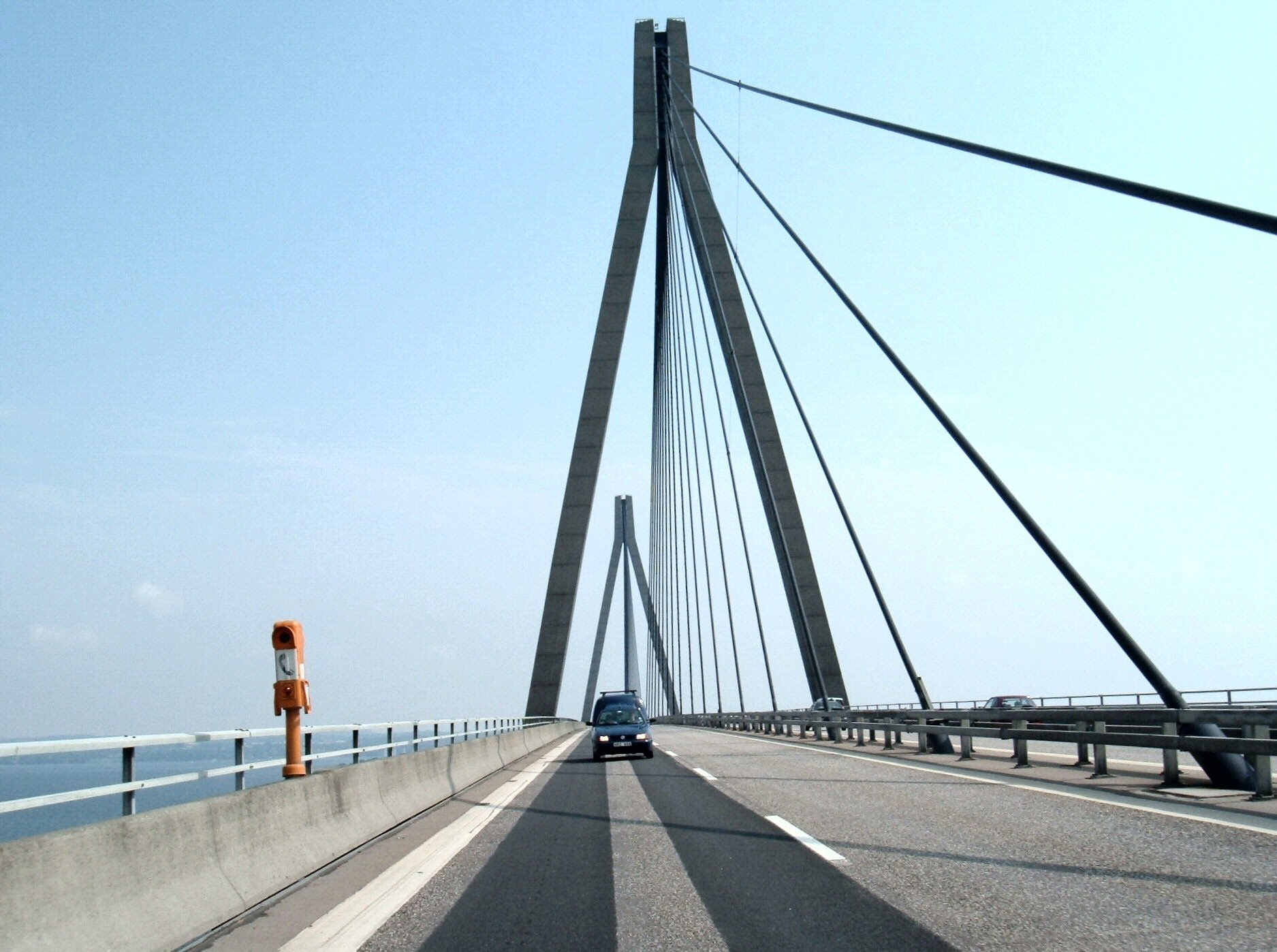 Southern section of Farø Bridge from the island of Farø to Falster in south eastern Denmark. View along road deck showing construction using a single central row of support cables. Taken by contributor July 2006